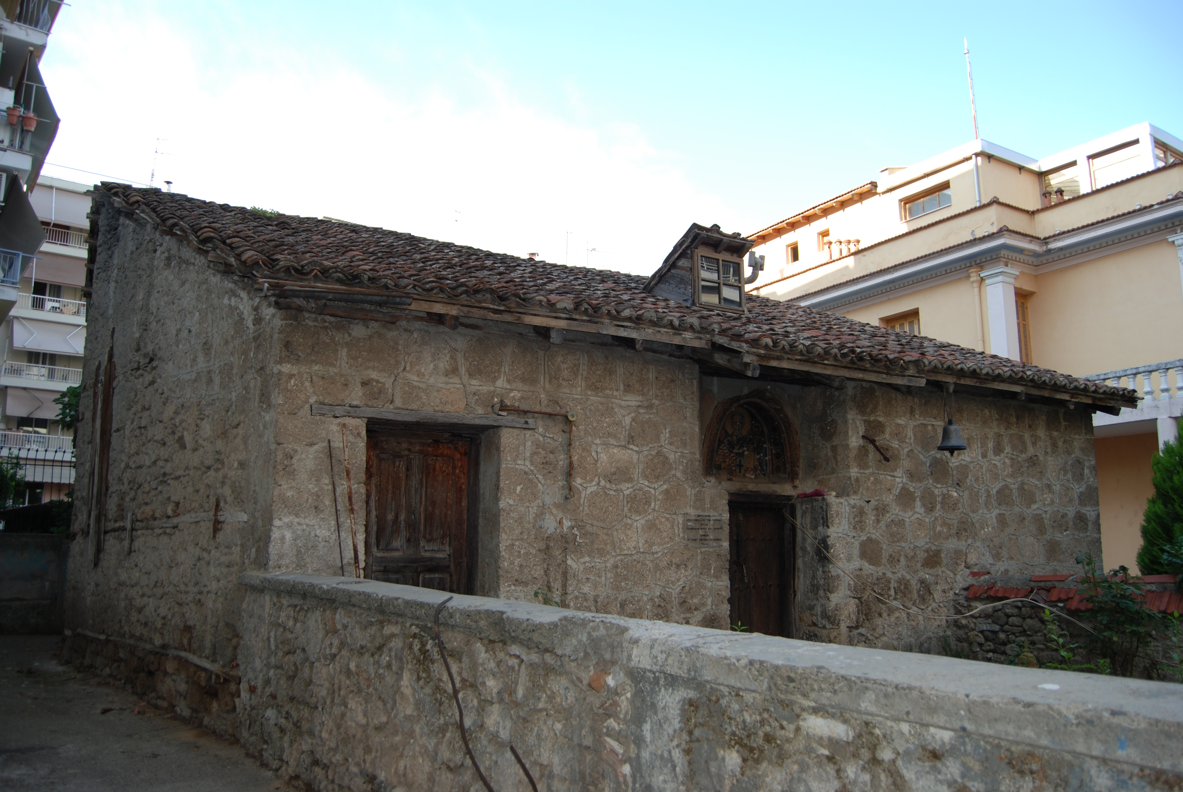 St. Nikolaos Dolen